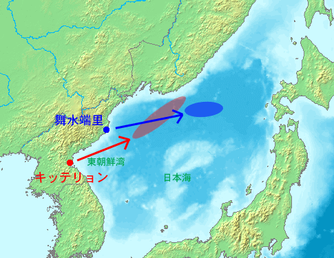 Missile launch in July 5th, 2006 by North Korea. Blue area means where the Taepodong seems to have impacted on Sea of Japan.